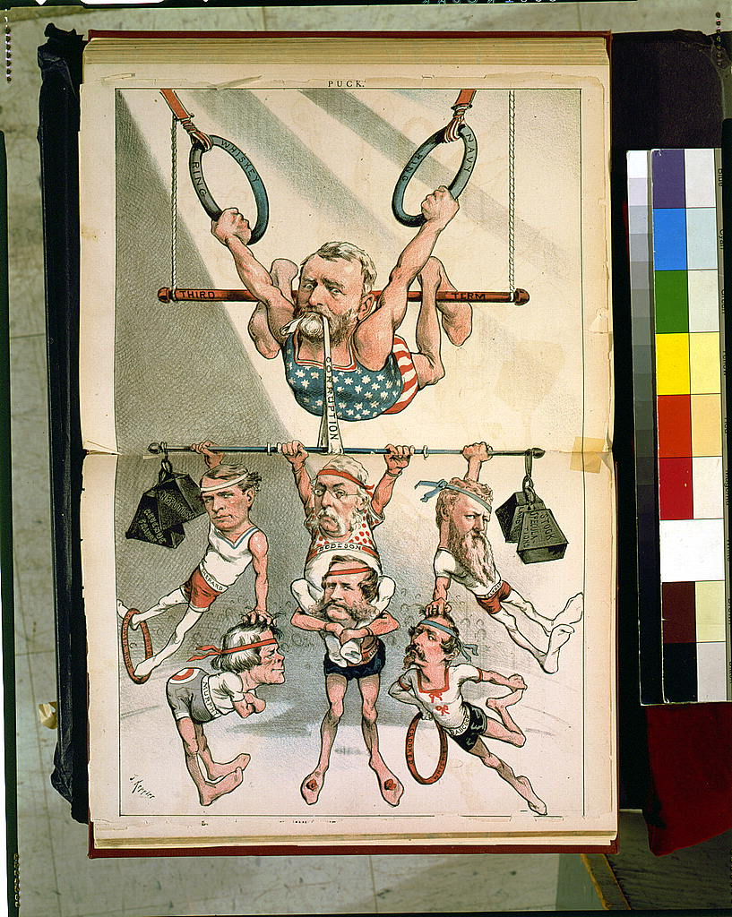 Title: Cartoon showing Ulysses S. Grant, as an acrobat, on trapeze "third term," holding on to "whiskey ring" and "Navy ring," with strap "corruption" in his mouth, holding up other acrobats, Shepard, George M. Robeson, William W. Belknap, Murphy, Williams, and Orville E. Babcock Physical description: 1 print : lithograph, color. Notes: J. Keppler.; Illus. in: Puck, v. 6, 1880 Feb. 4, pp. 782-783.